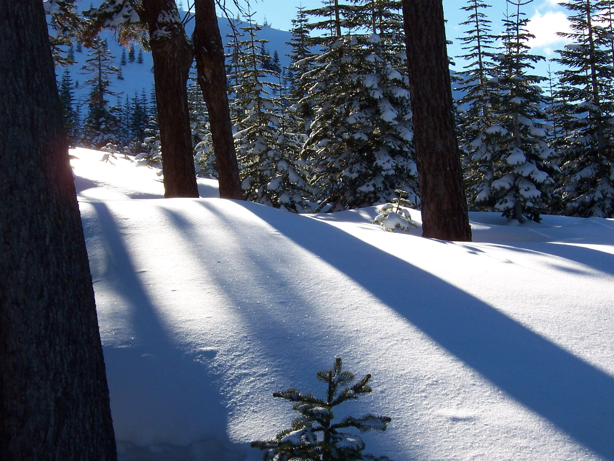 Snow-clad sierra terrain & trees